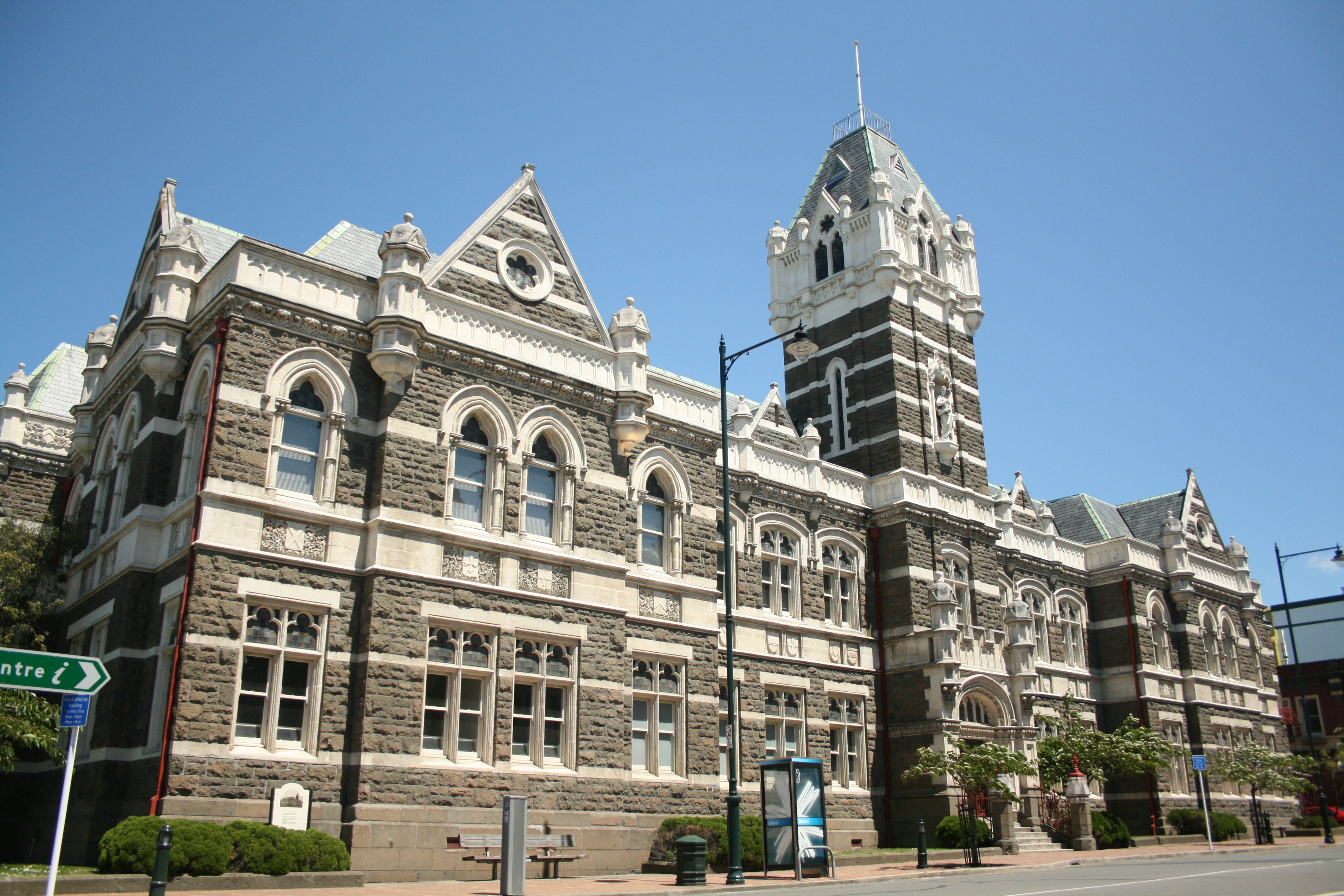 Dunedin, New Zealand